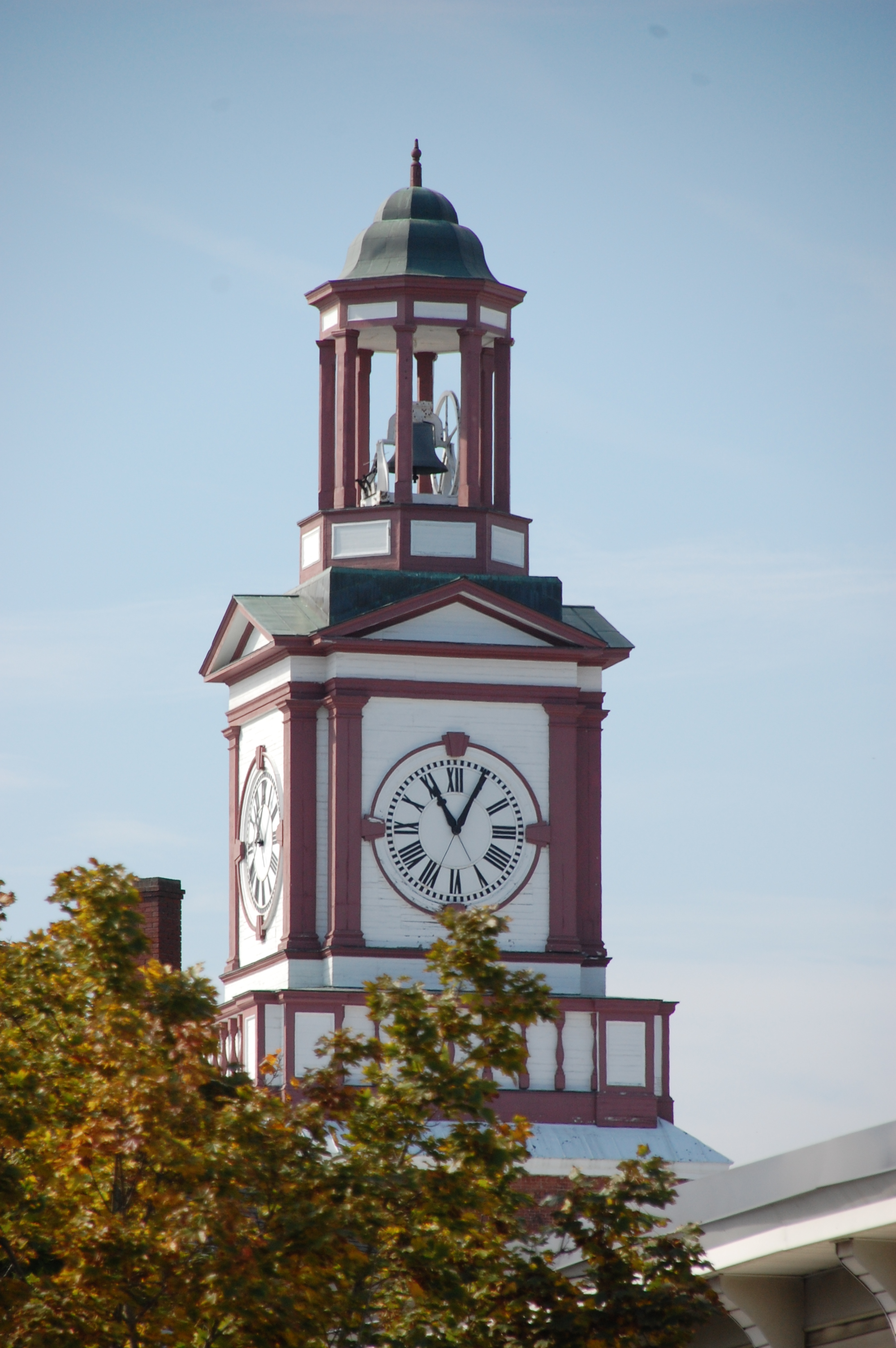 The clock tower atop Clock Tower Place in Maynard, Massachusetts.